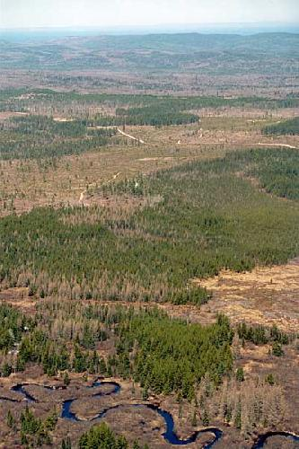 Aerial view of the plains with the Salmon Trout River in the very bottom of the shot. This is looking NorthEast (?) and the hills in the background are the ancient Huron Mountains, home to some of the oldest exposed rocks on the Earth.